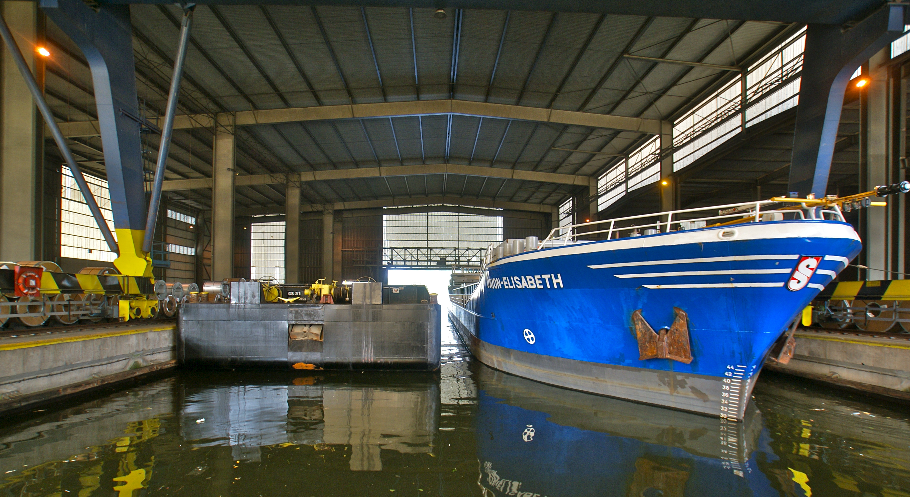 Liège, Belgium: Maritime Trailer Union Elisabeth in the covered Dock